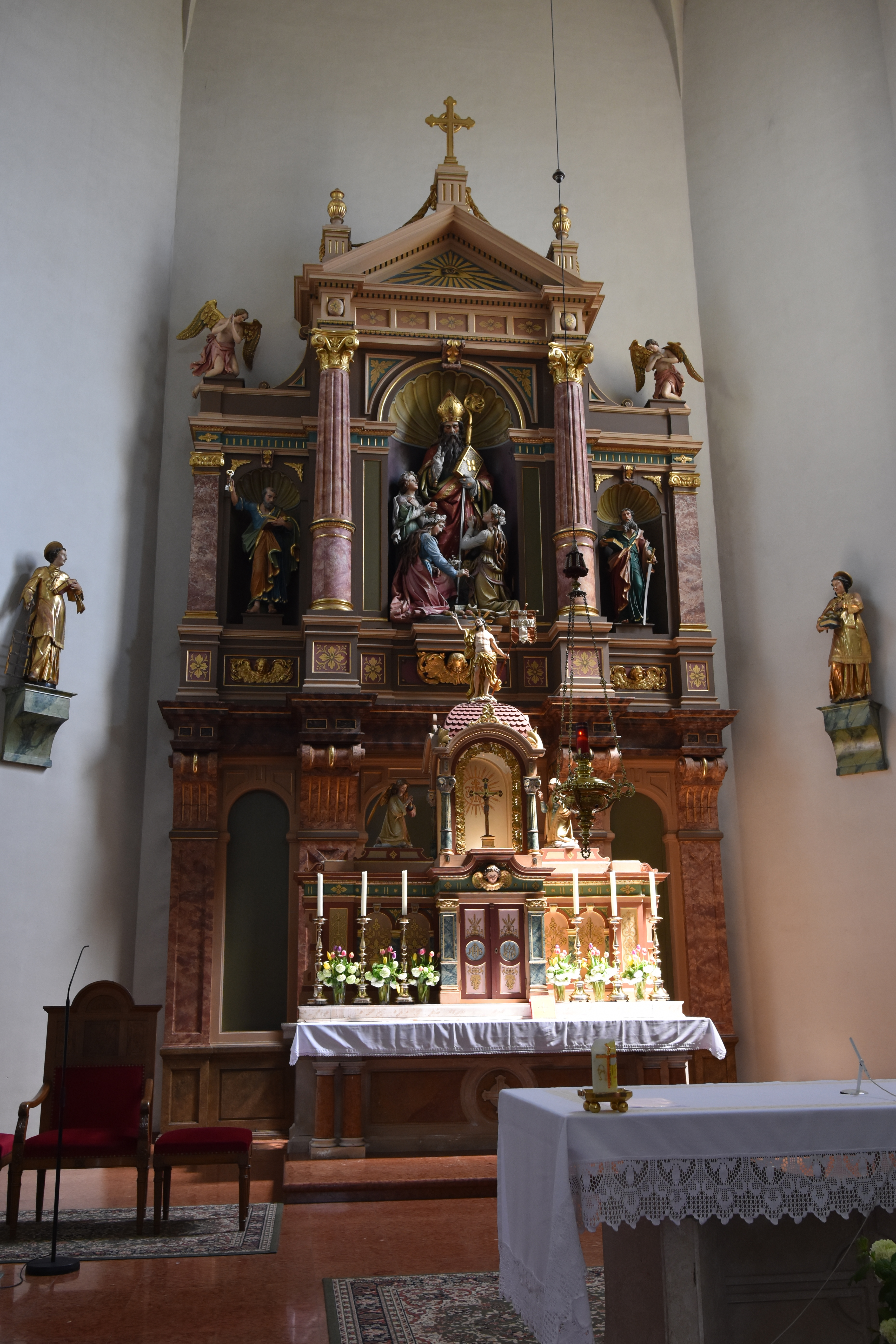 Church Saint Nicholas Church (Leutschach) - Interior